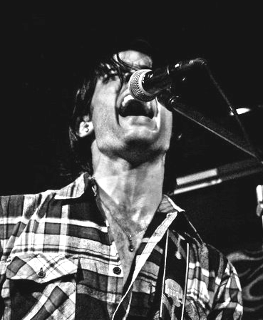 Jean Morrison live in Durban, South Africa